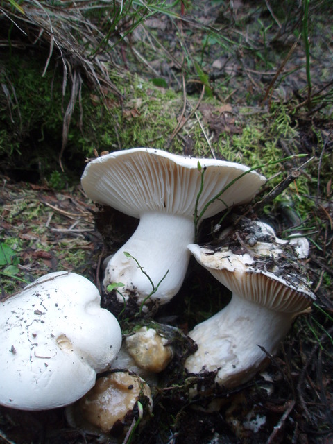 The mushroom Hygrophorus subalpinus. A.H. Sm. Photographed in Gallatin Co., Montana, USA. Notes: "Growing near melting snow banks. They were tasty…"